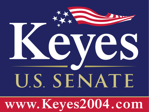 Alan Keyes 2004 sign